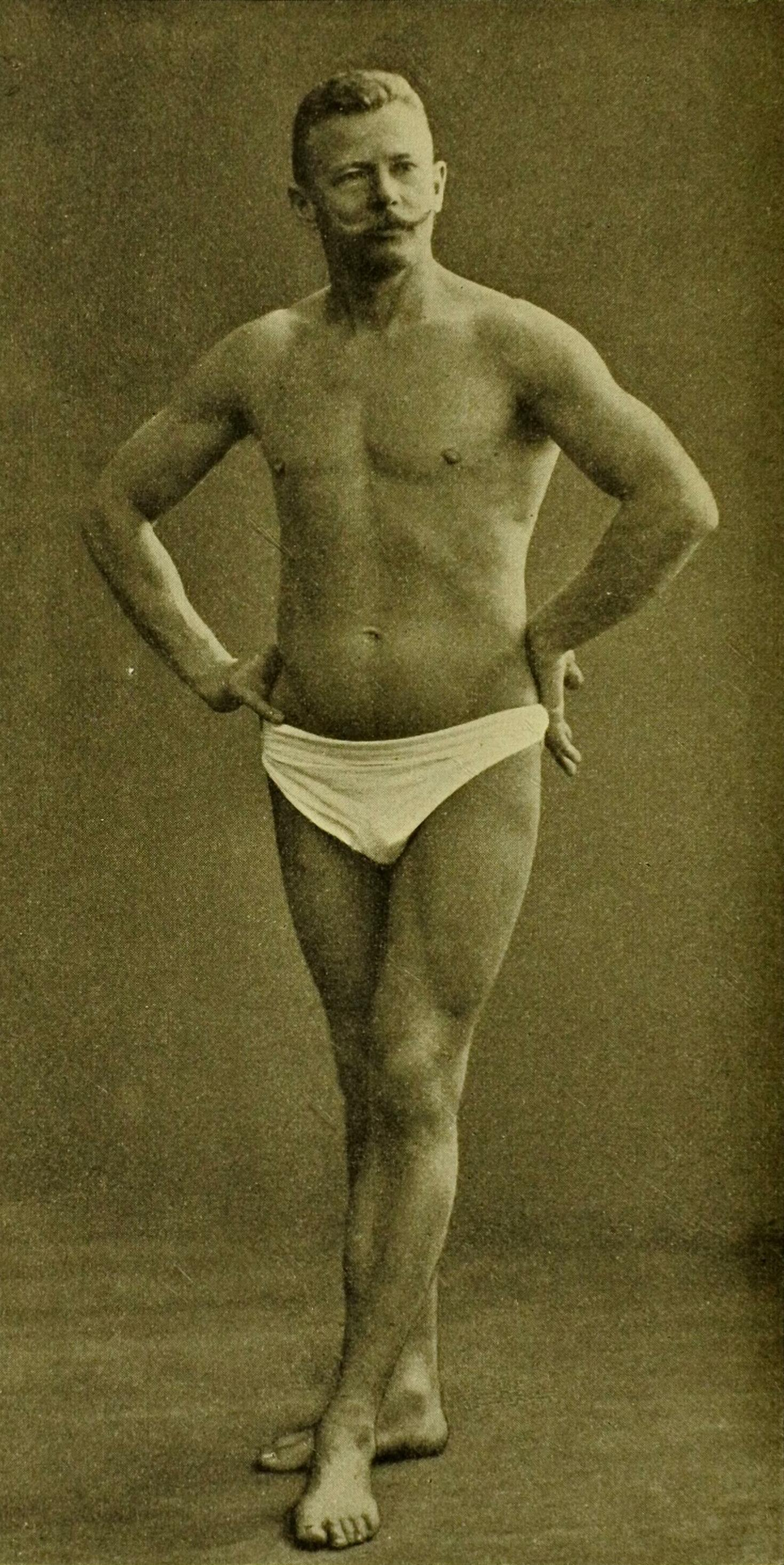 J.P. Muller